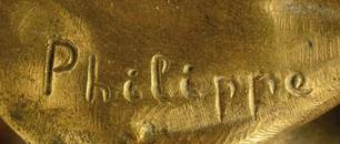 Paul Philippe's signature